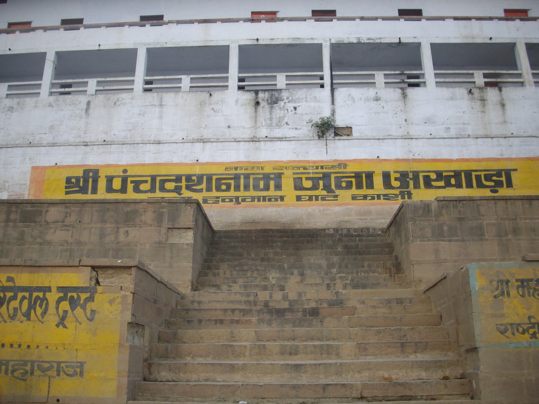 The famed Naga sadhus Akhada.